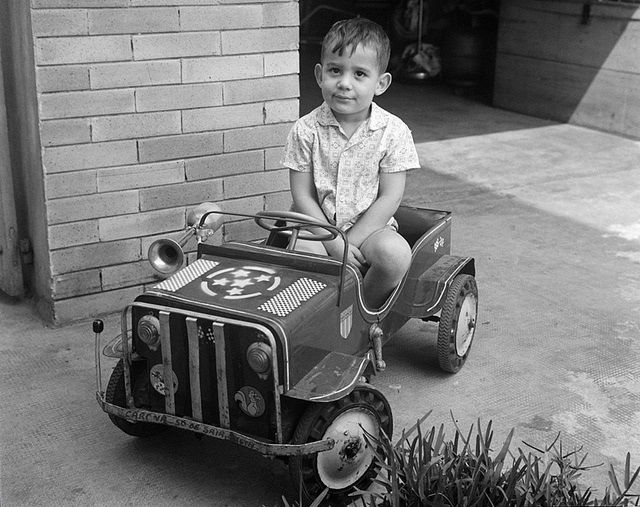 Ayrton Senna at the age of three